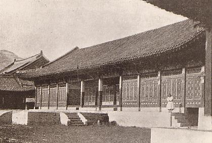 Kyujanggak(Royal library)